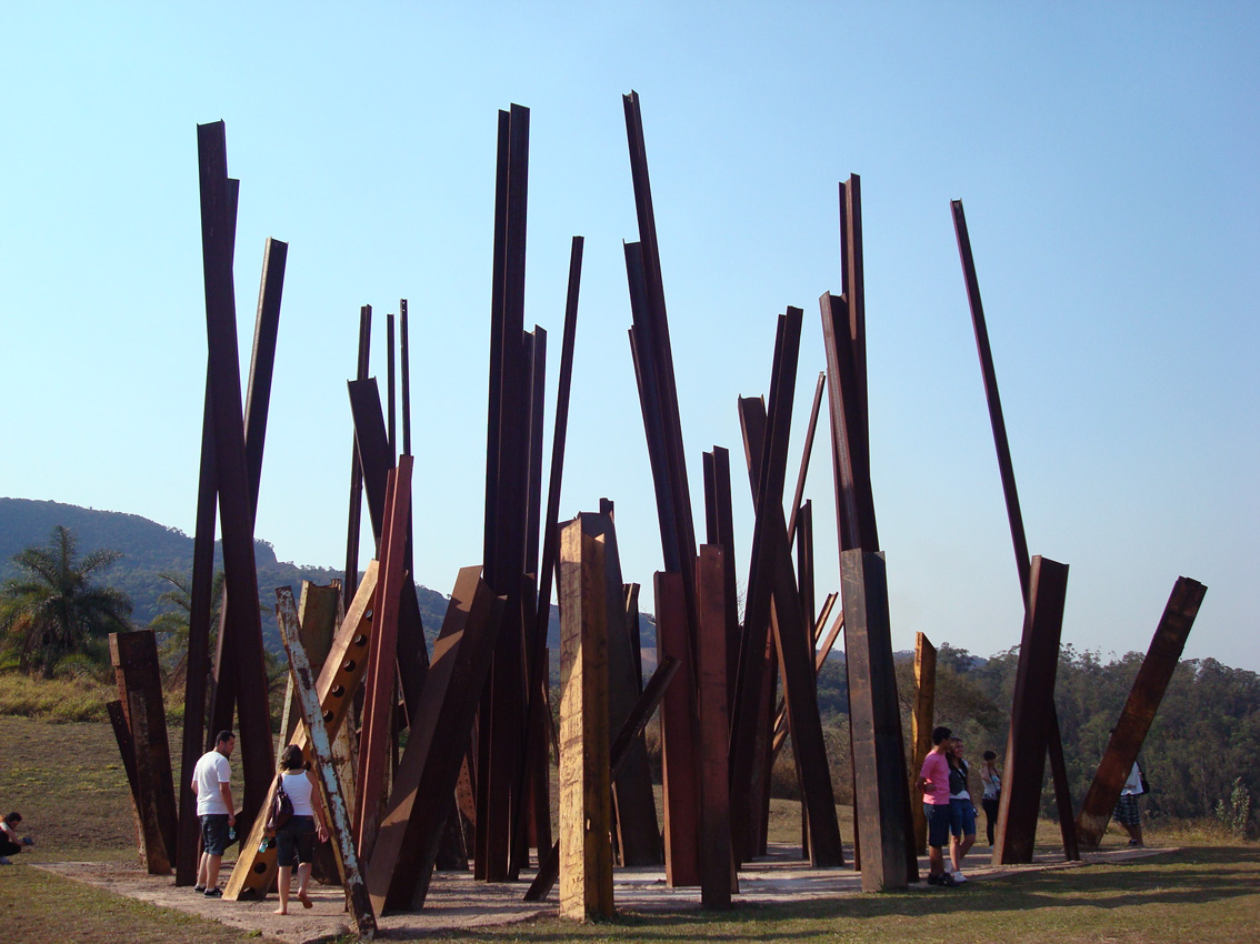 beam drop - chris burden at Instituto Cultural Inhotim in Brumadinho/Brazil